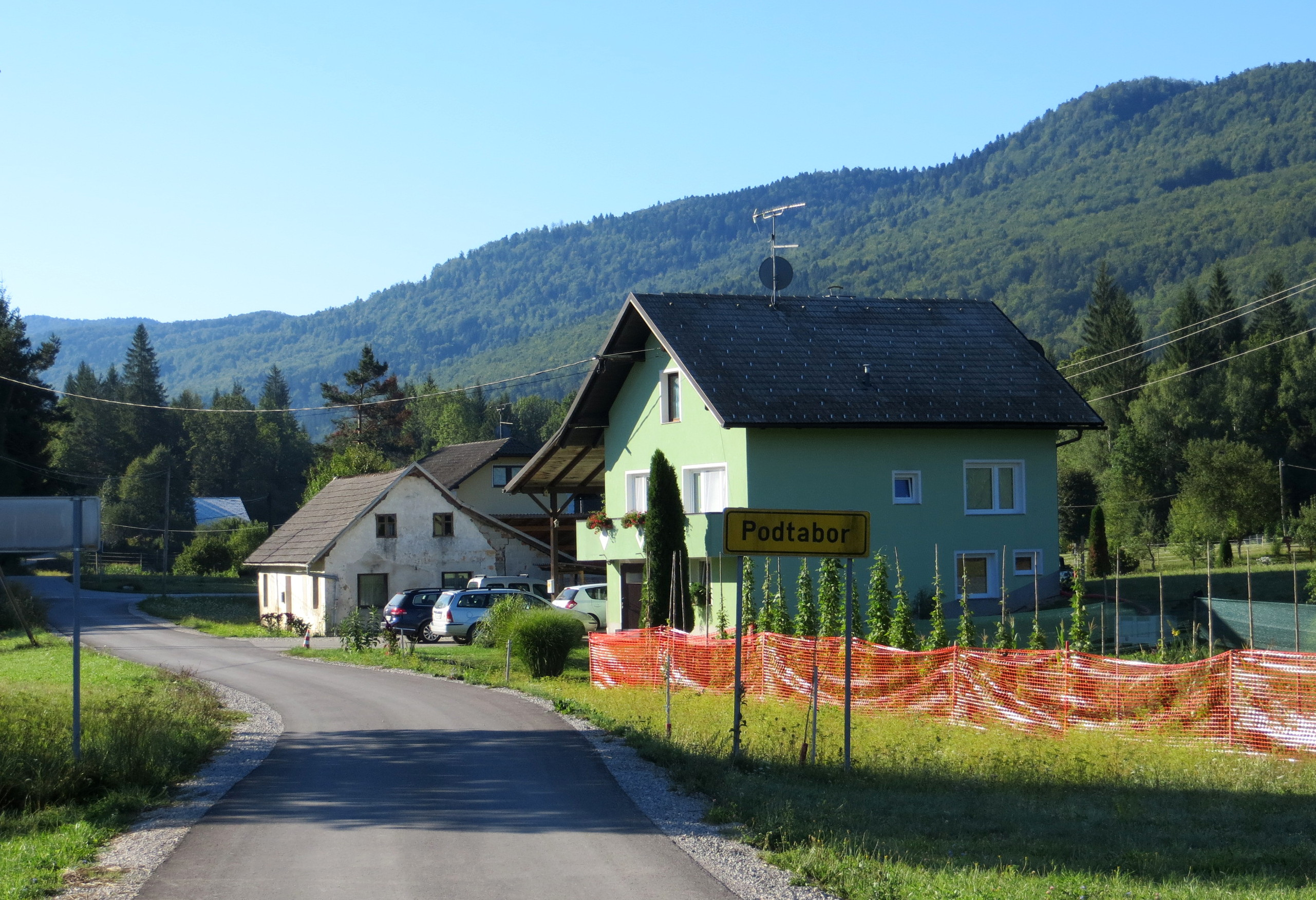 Podtabor, Municipality of Dobrepolje, Slovenia